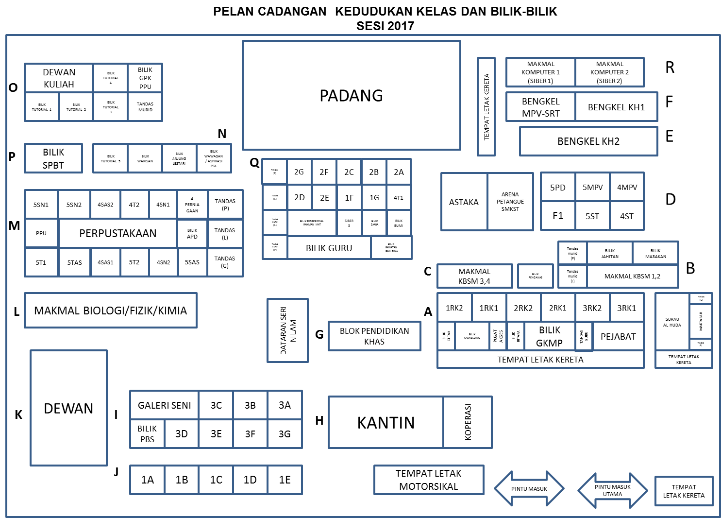 pelan kelas